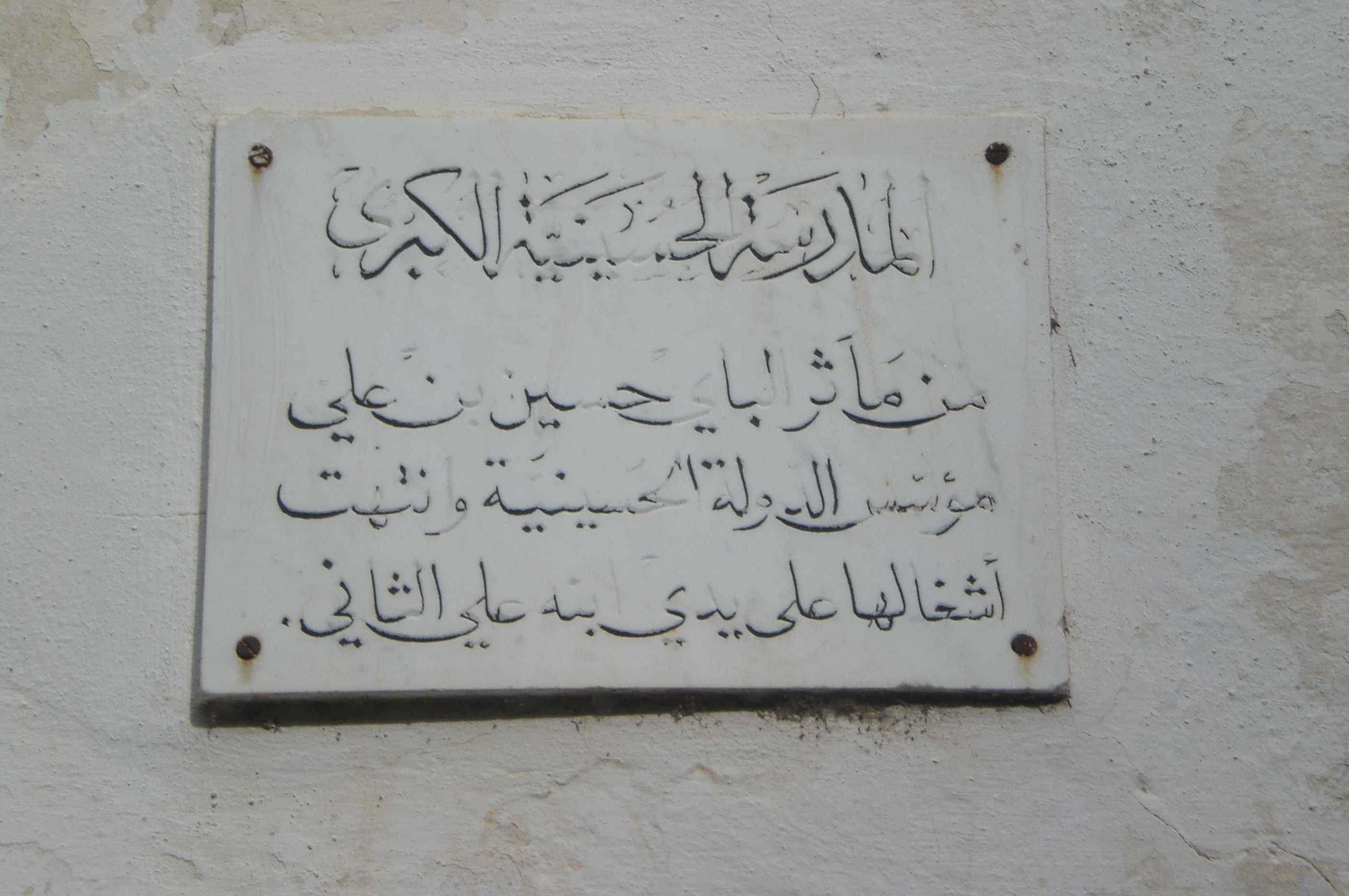 Inscription of Medersa Husseinia Kobra-Tunis.